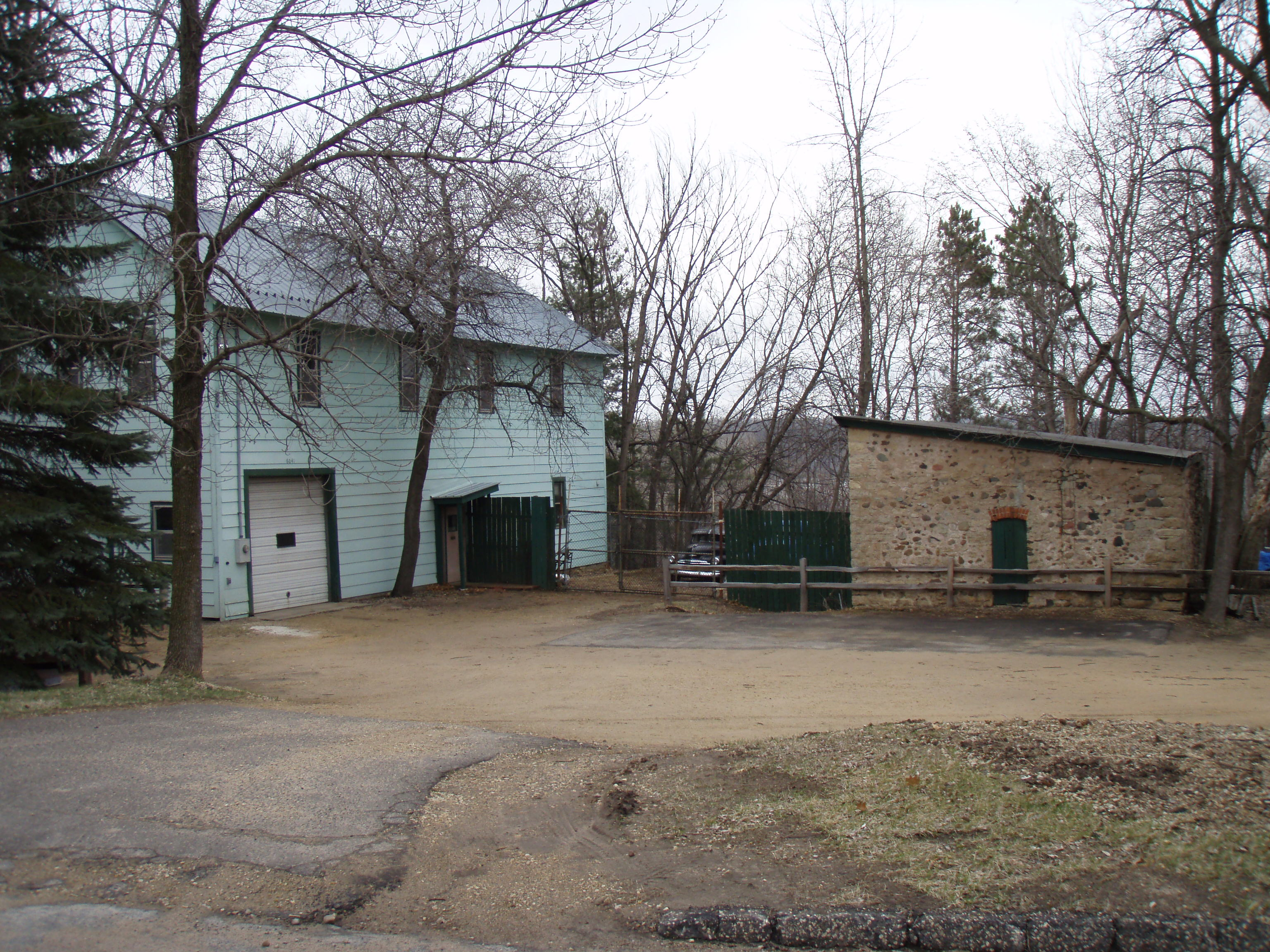 Moritz Bergstein Shoddy Mill and Warehouse in Oak Park Heights, Minnesota, listed on the National Register of Historic Places.